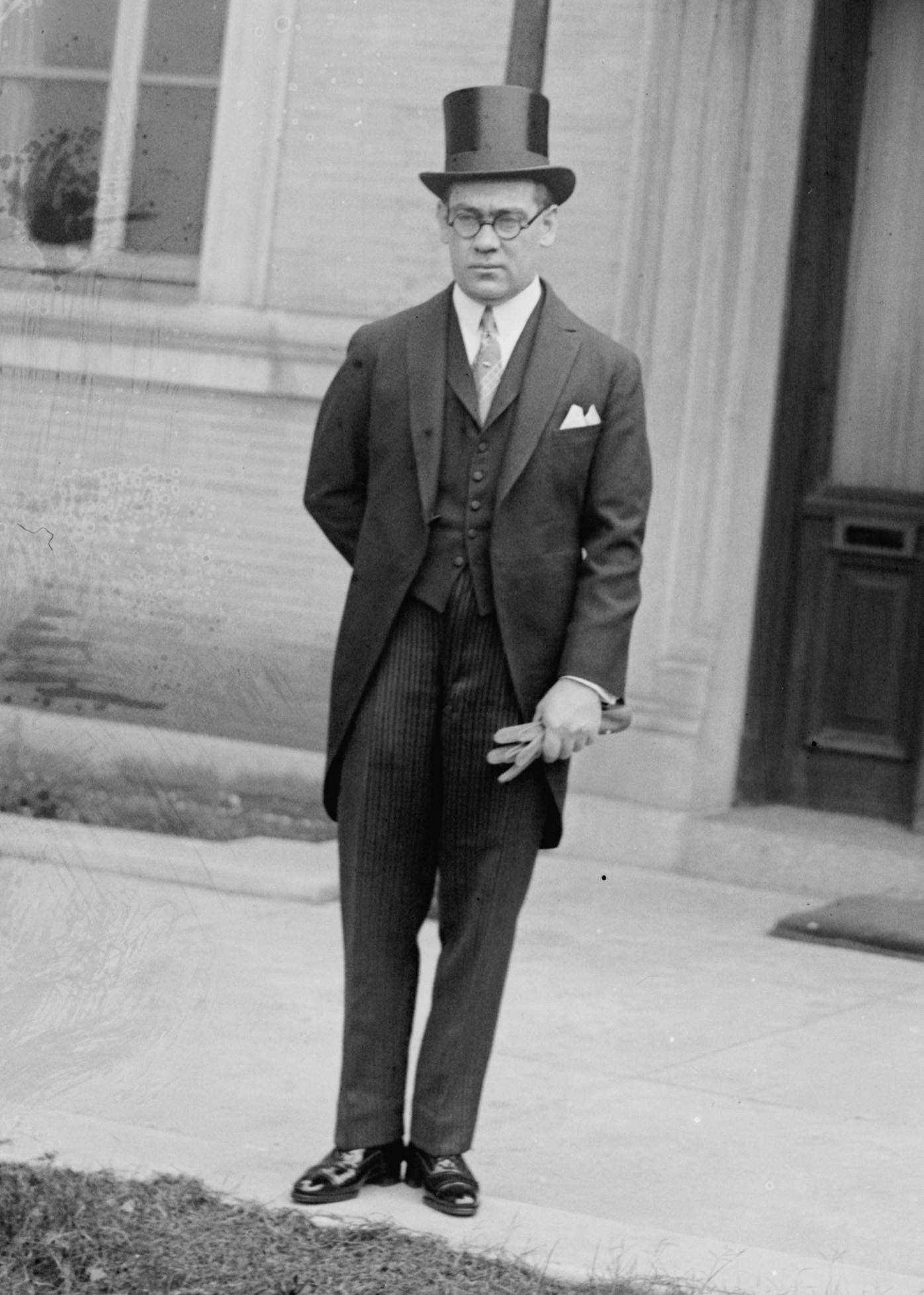 Depicted person: Manuel C. Téllez